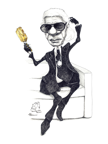 karl lagerfeld